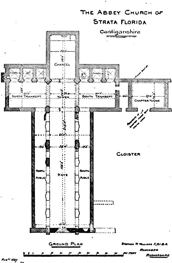 Ground plan, cloister, the Cistercian Abbey of Strata Florida